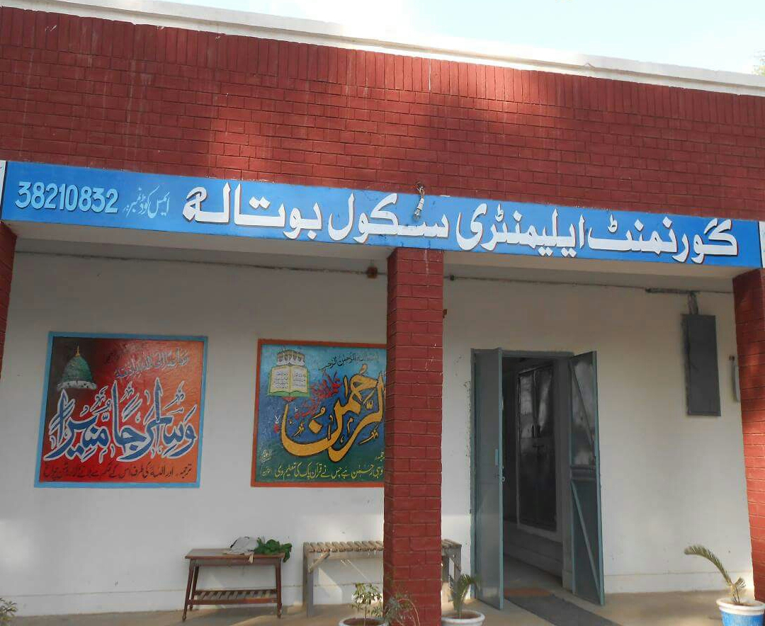 I also Uploaded this Photo on Botala Facebook Page & on website